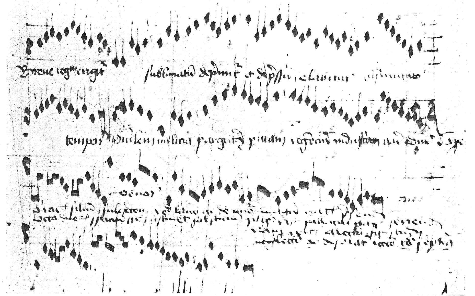 Manuscript of Breve regnum erigitur.